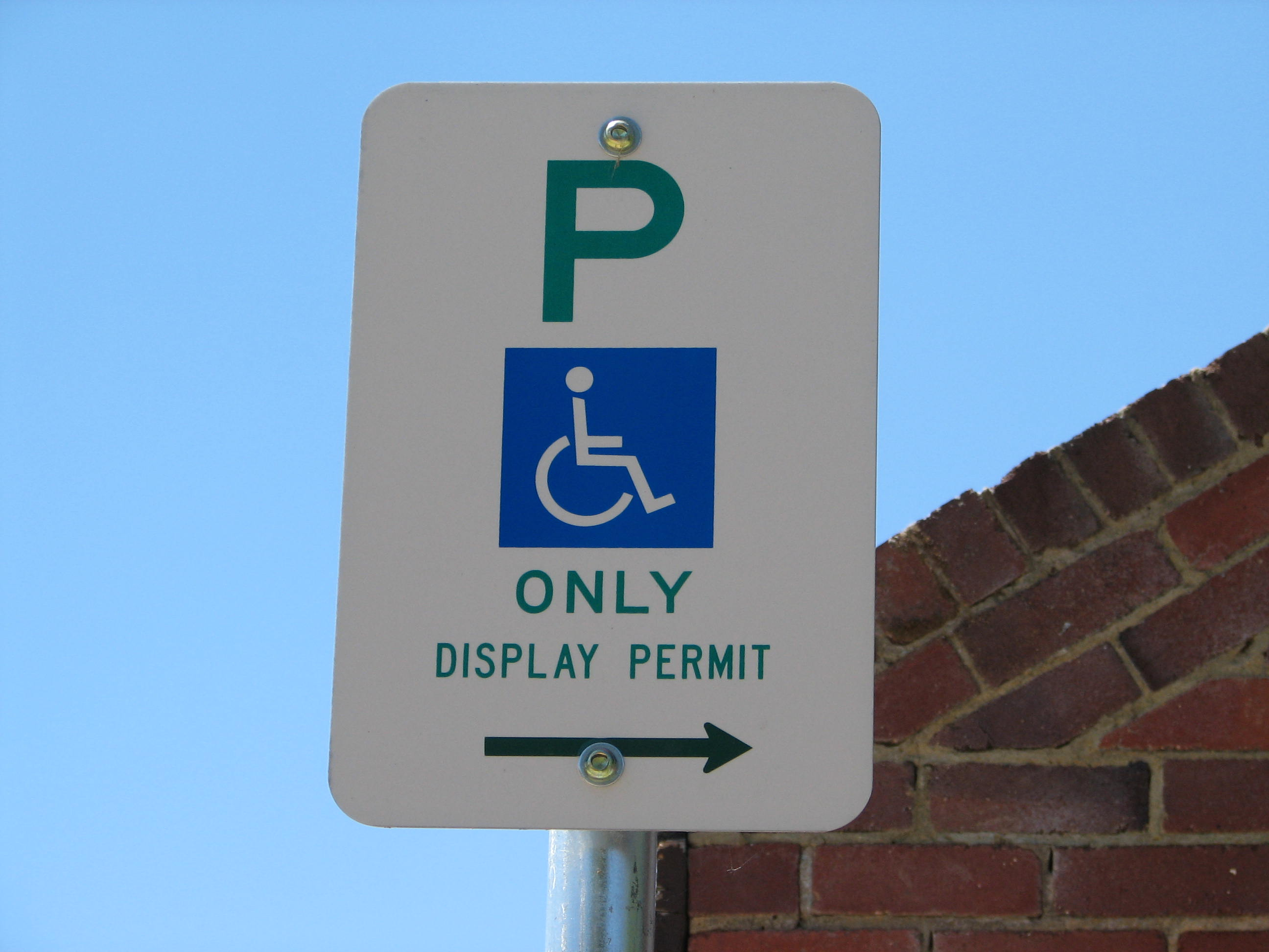 A disabled parking sign in Torrens, Australian Capital Territory.